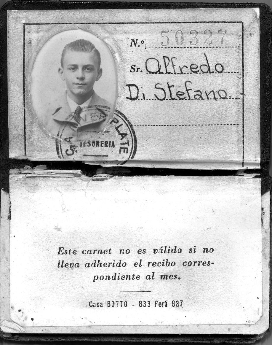 Alfredo Di Stefano's membership card of Argentine Club River Plate.